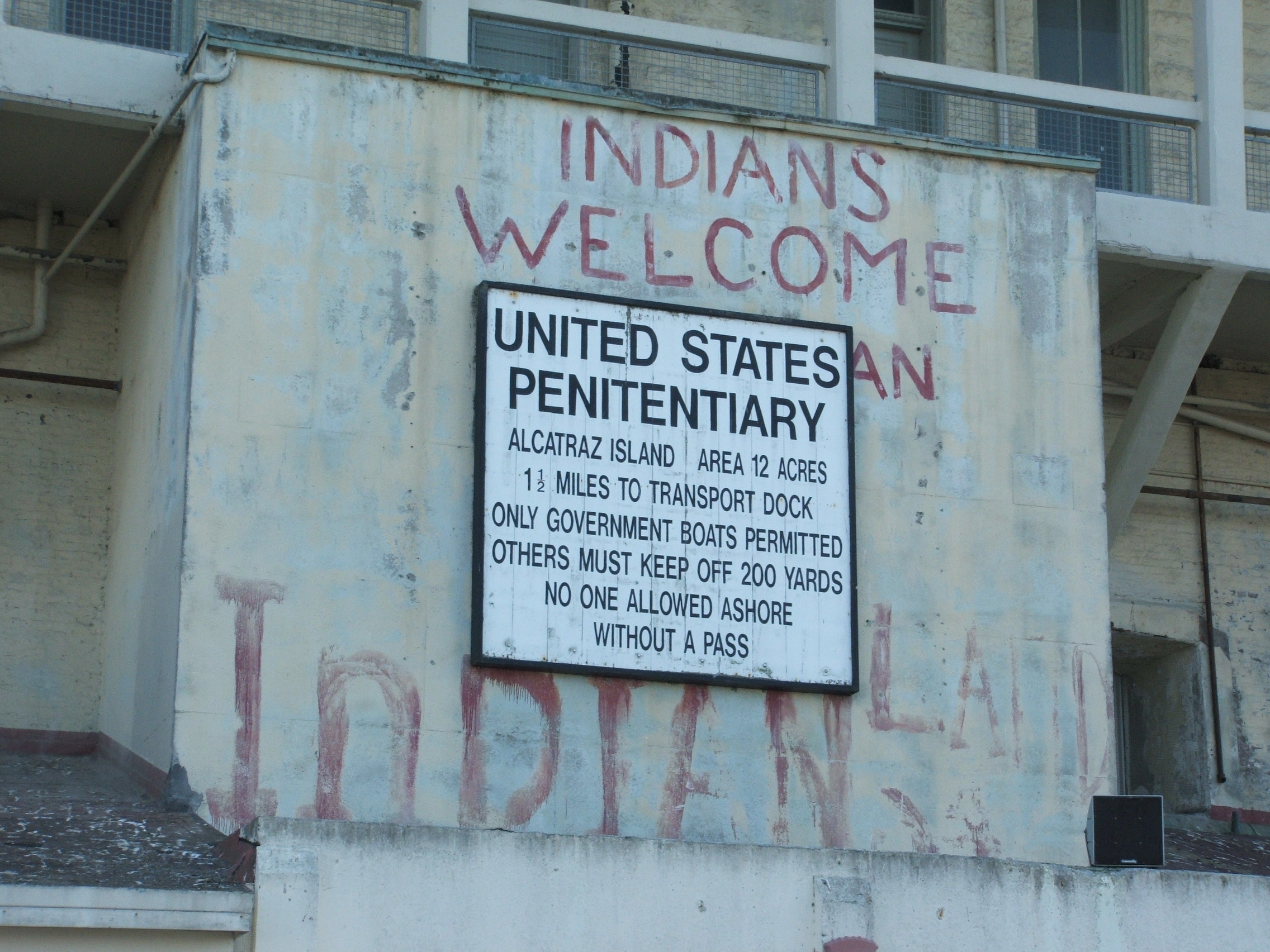 A lingering sign of the 1969-71 Native American occupation (2006 Photograph) of Alcatraz.